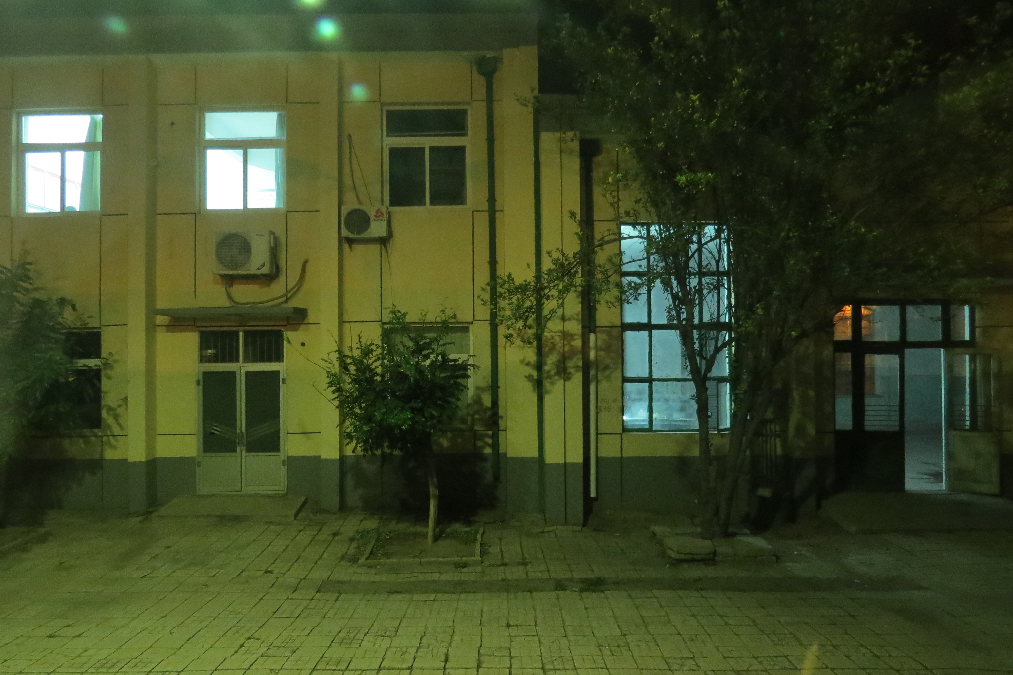 Taken from Z4013.